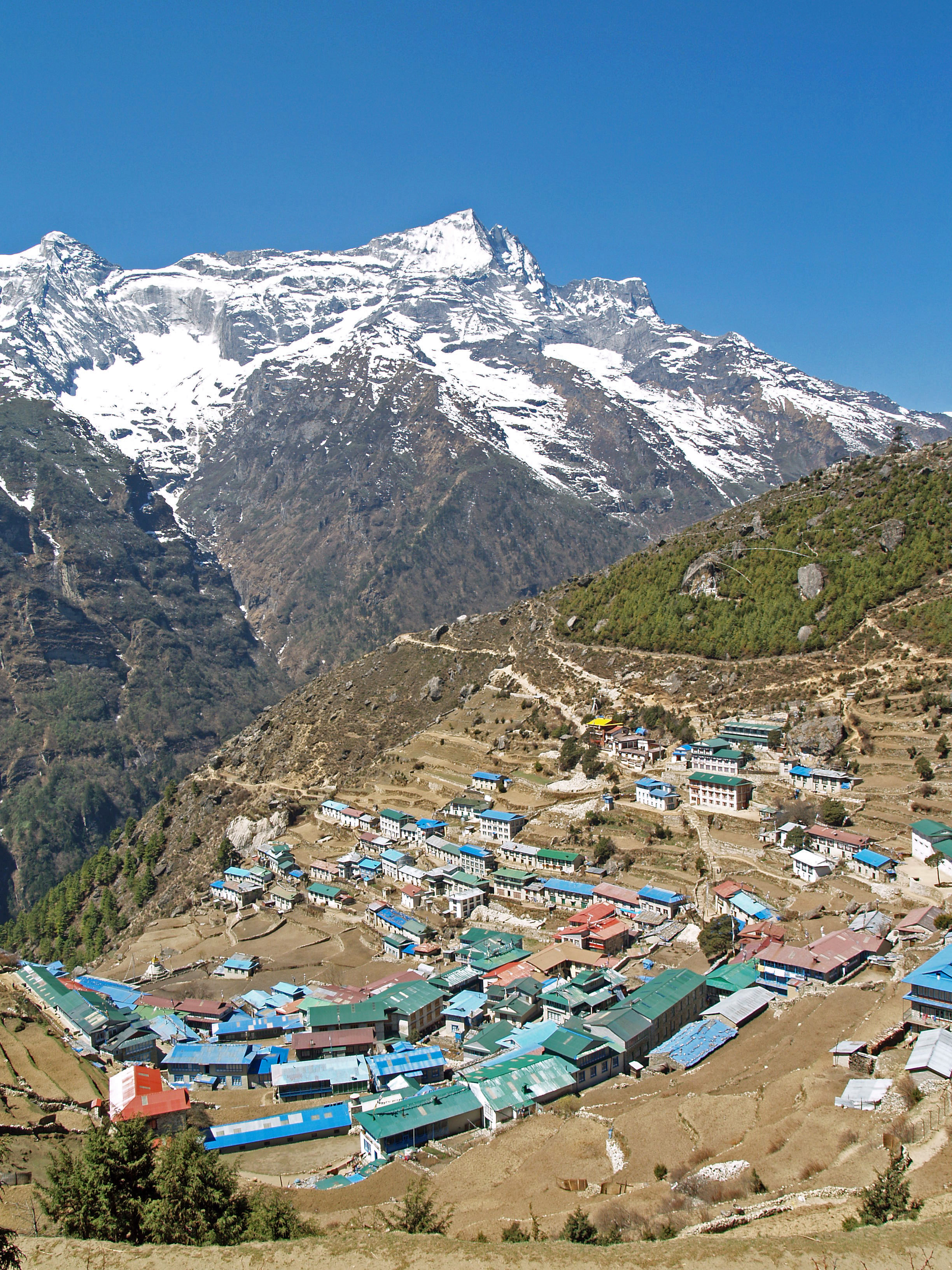 Namche Bazaar village located at 3,440 metres (11,286 ft) above the sea level in Khumbu region, northeastern Nepal. The Kongde Ri peak with its 6,187 m (20,299 ft) can be seen in the background.